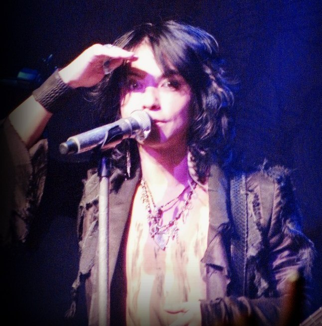 Hyde with VAMPS at Kesselhaus, Berlin 03.10.2013